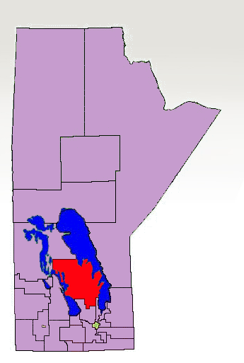 The 1998-2011 boundaries for the Interlake electoral district highlighted in red